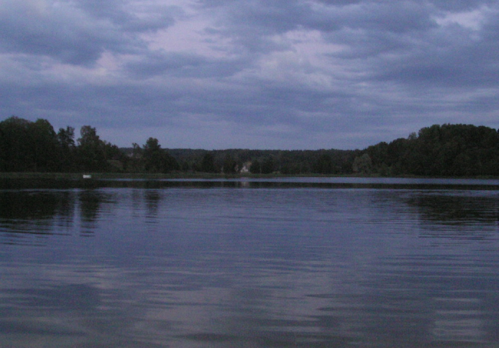 Lake (Rõuge Suurjärv) in Estonia